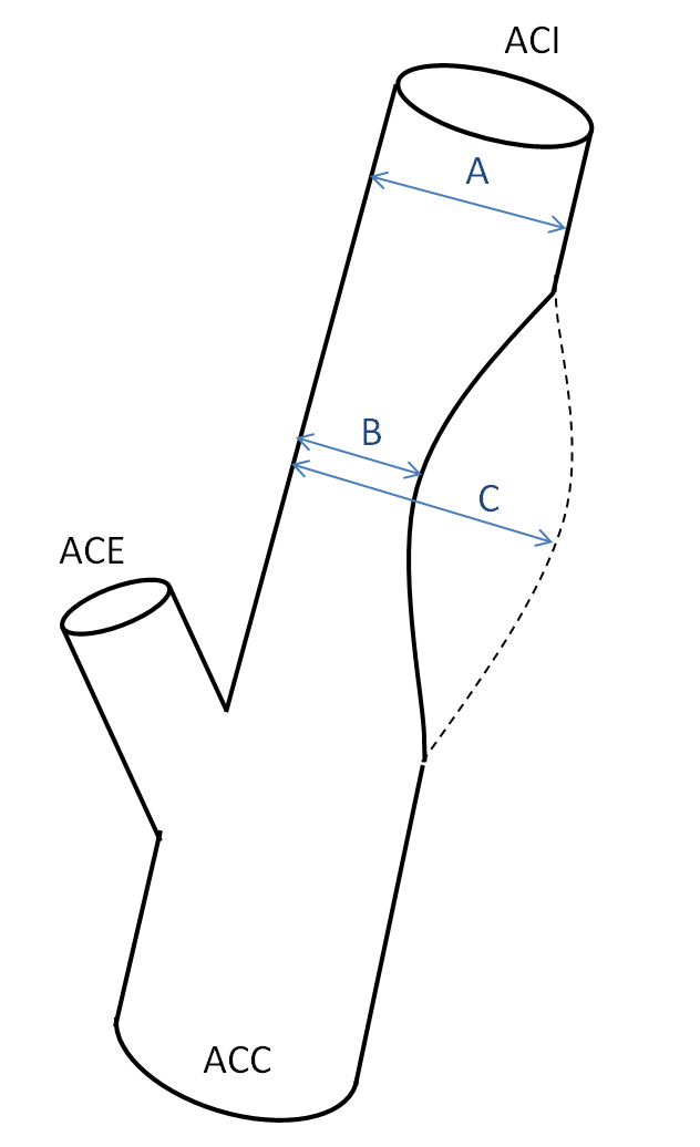 carotid artery stenosis grades according NASCET and ECST, A. Thrush Vascular ultrasound, 2011, page 101